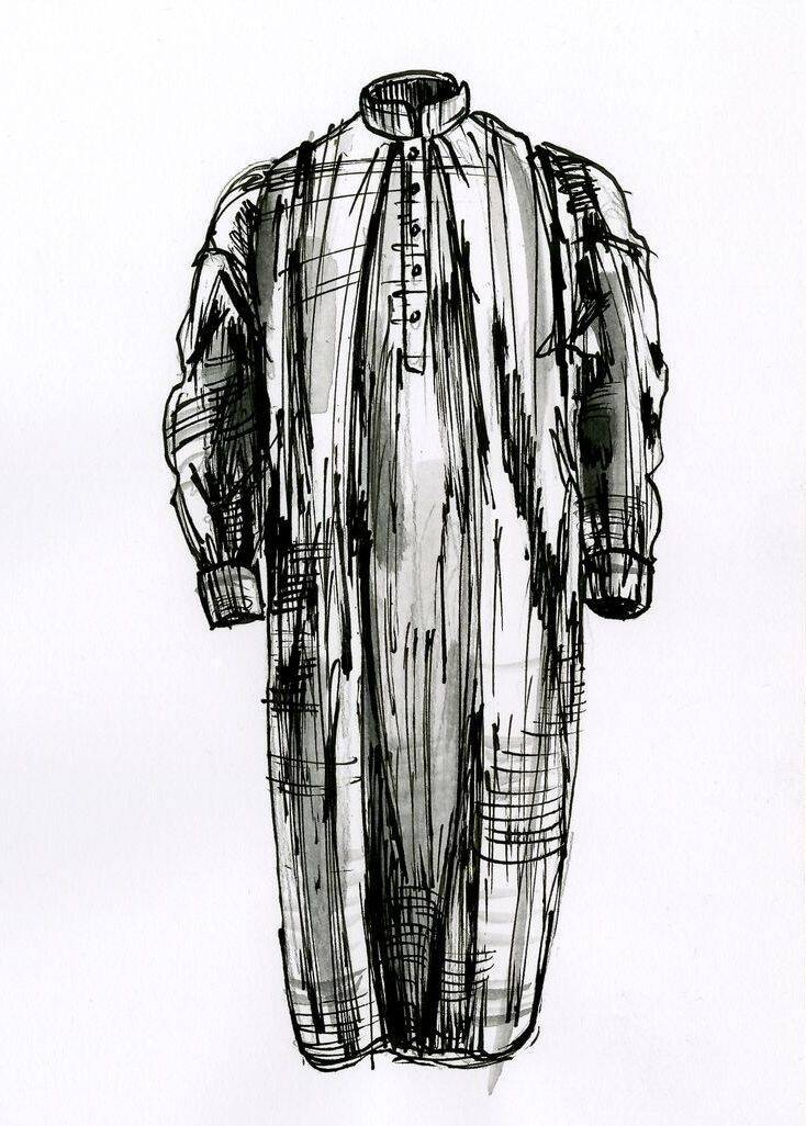 The description of the concept in this drawing is: Loose shirtlike garments, often knee-length, worn for sleeping. (AAT)